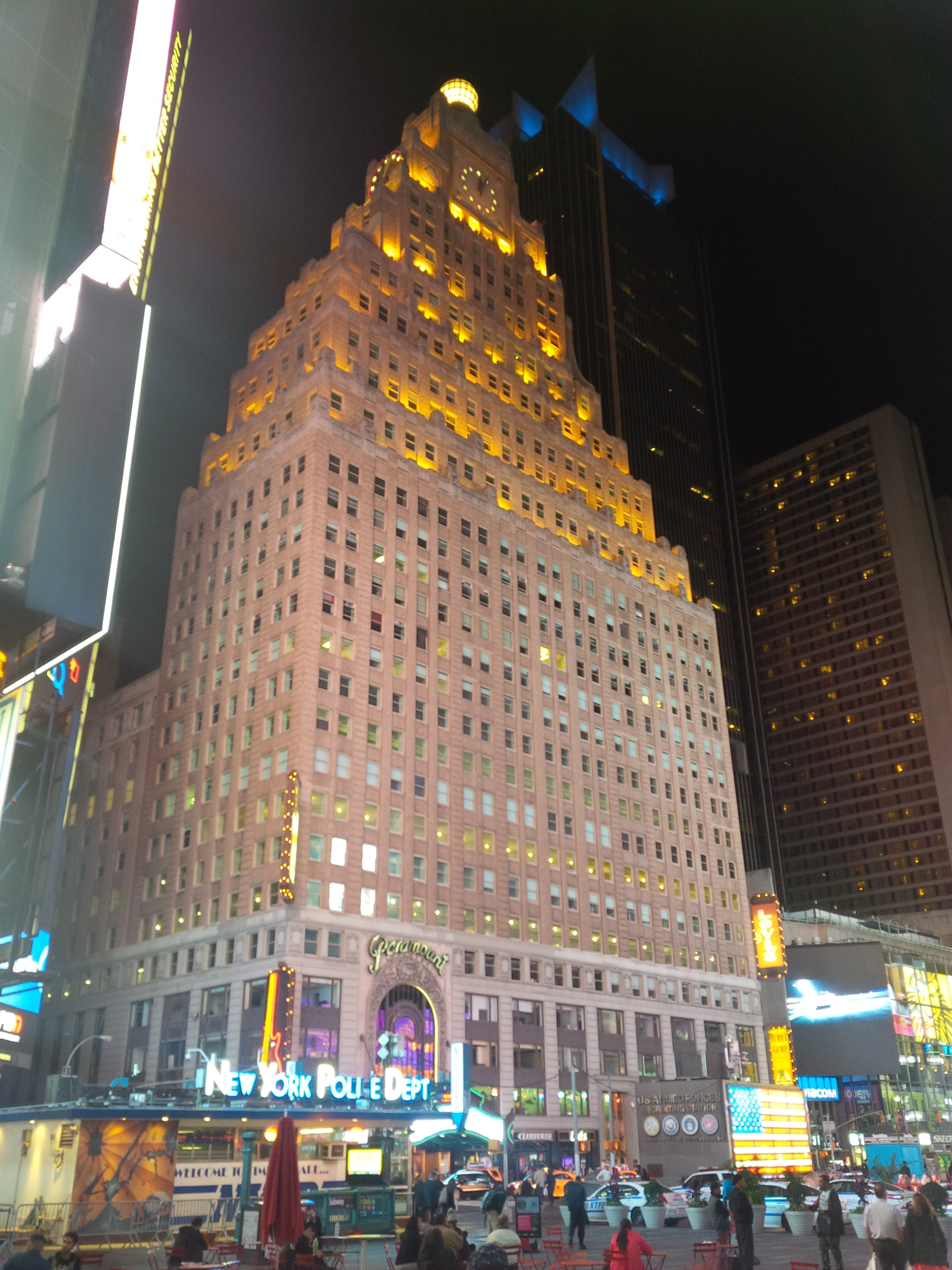 Paramount Theatre at night